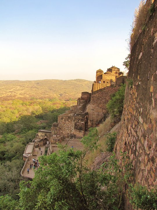 Ranthambhor Fort